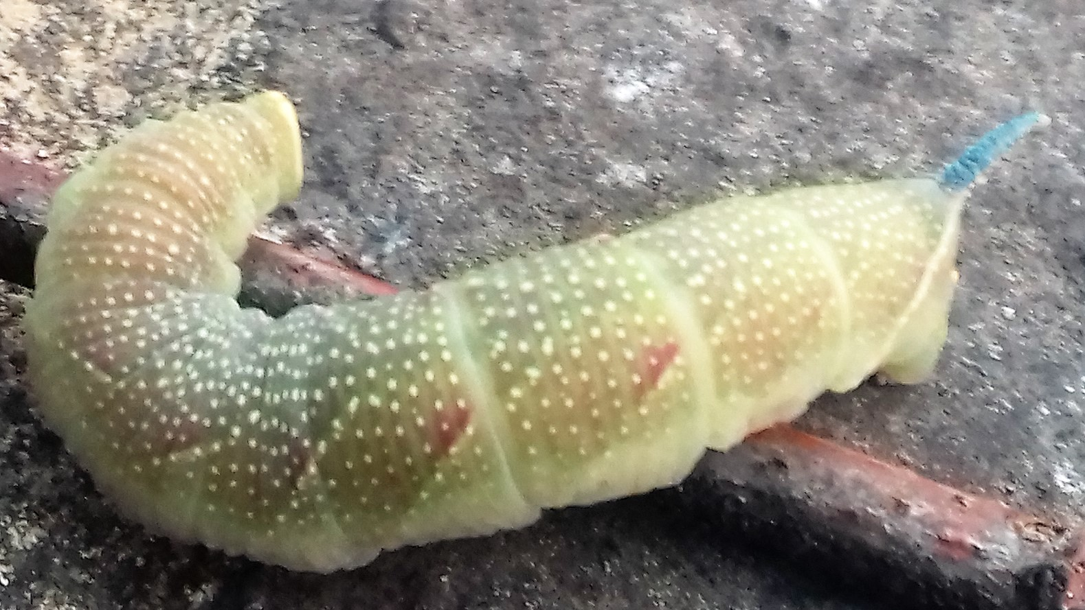 Lime hawk-moth (Mimas tiliae) caterpillar in London, England.